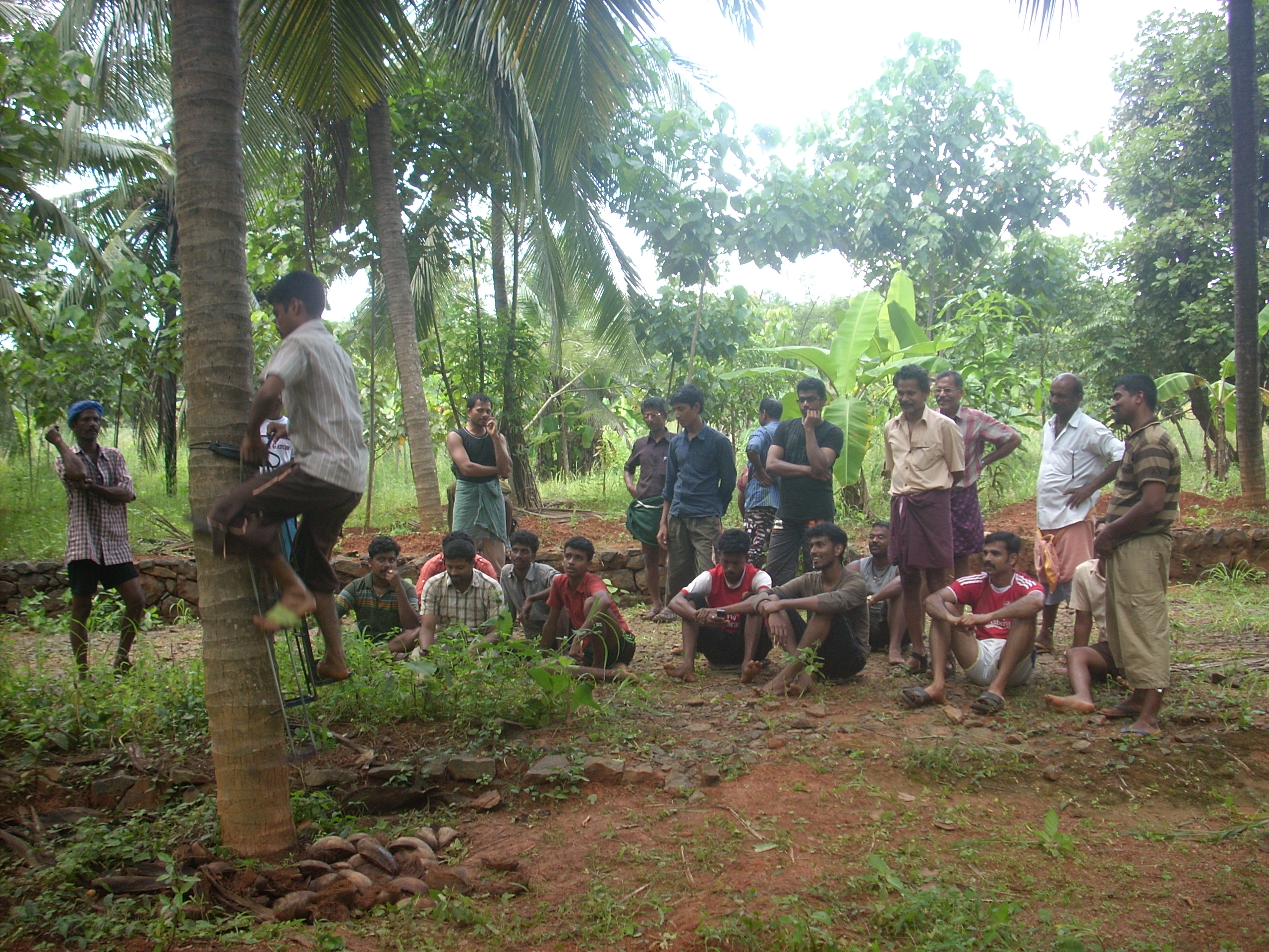 Friends of Coconut Tree - Coconut Climbing training program by Coconut Development Board. Thrissur Venu Program: Wadakkanchery, Mundathicode, (Green army)